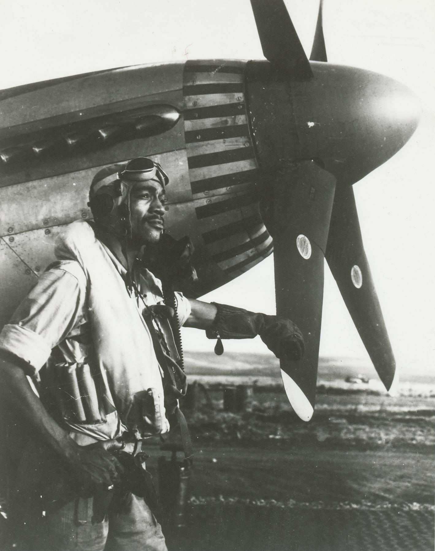 1LT Lee A. "Buddy" Archer with P-51C Mustang 302nd Fighter Squadron, 332nd Fighter Group